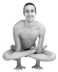 Rája Kúkkutásana